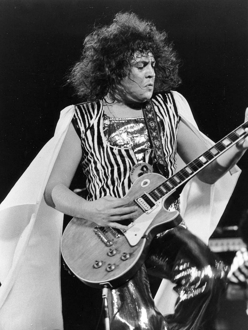 Photo of Marc Bolan (T Rex) from a 1973 ABC Television In Concert performance.